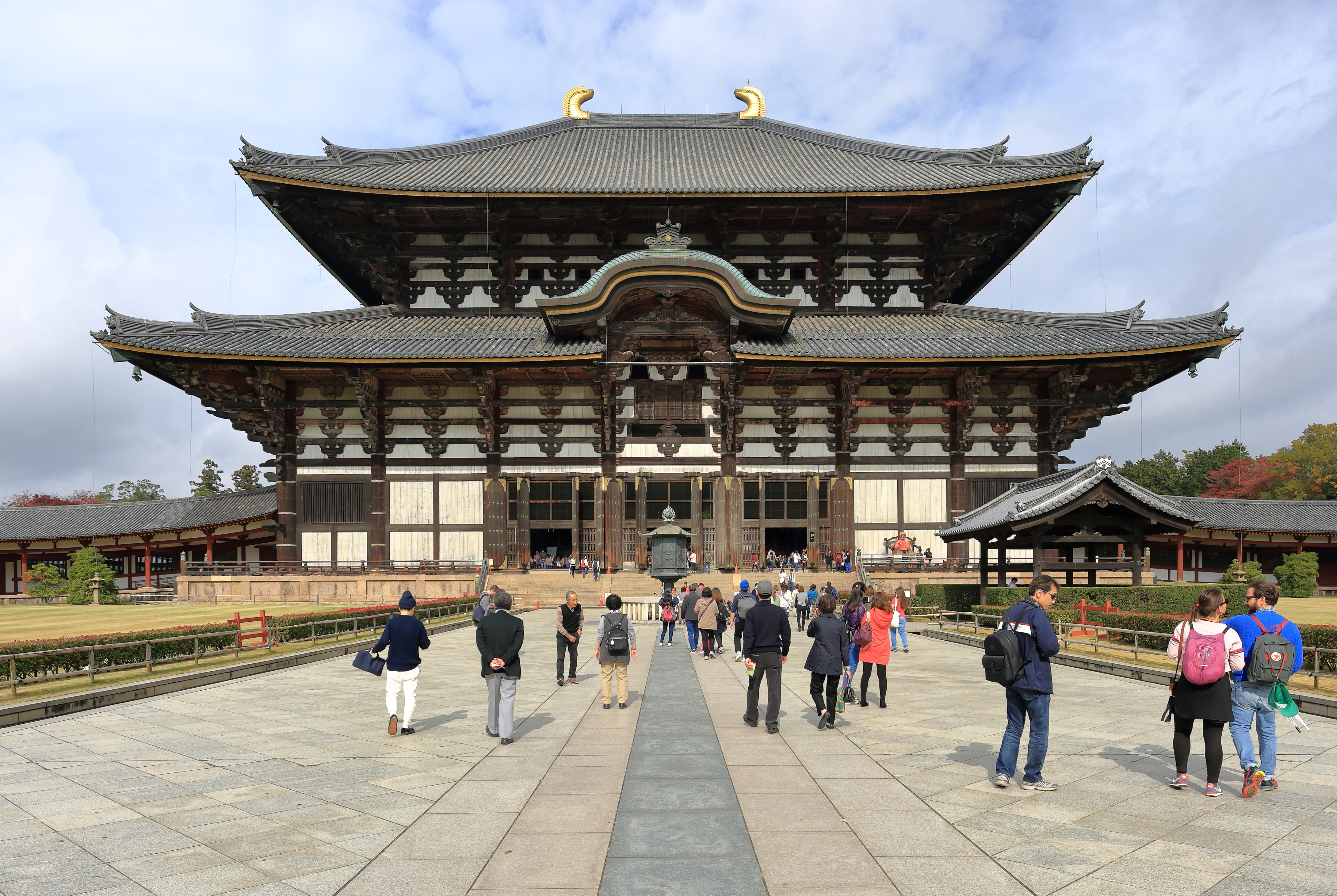 Tōdai-ji's Golden Hall, a Japanese National Treasure, is located in Nara, Japan; part of UNESCO World Heritage Site Ref. Number 870.